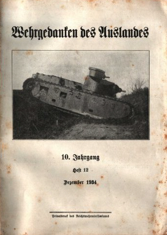 Cover of the German military magazine "Wehrgedanken des Auslandes"